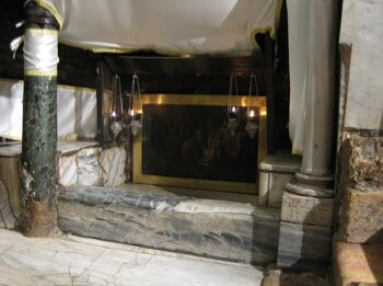 The Church of the Nativity in Bethlehem. Manger. / Crkva Rođenja Isusova u Betlehemu. Jaslice.